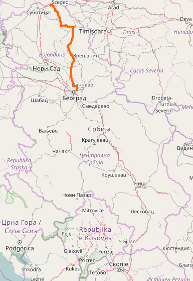 OpenStreetMap of State Road 13 in Serbia.